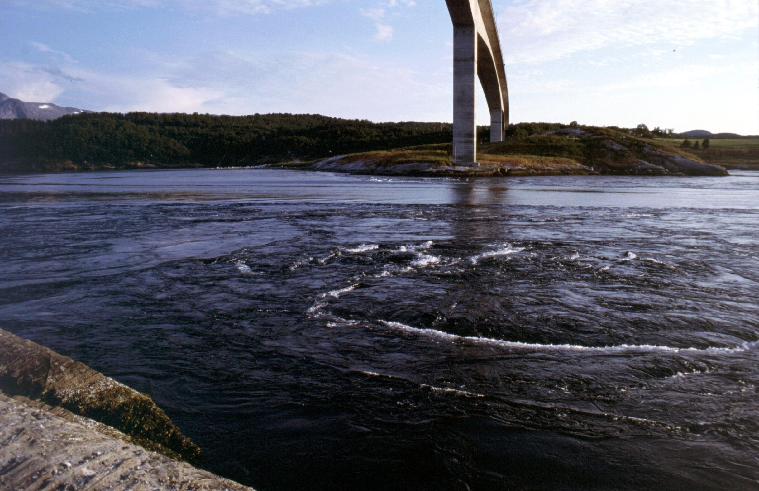 A maelstrom near the city of Bodø in Norway. July 2003 by Matthias Prinke